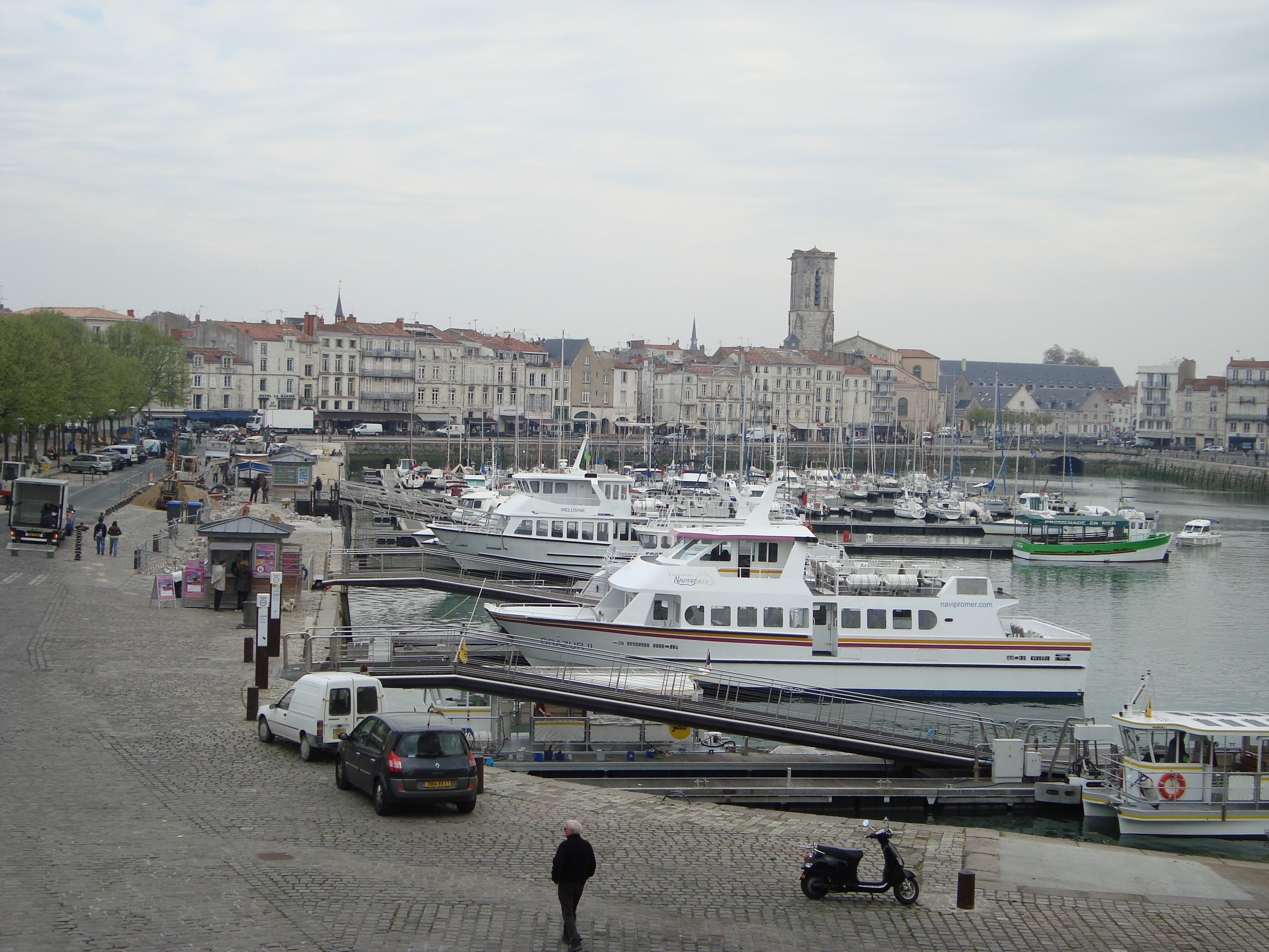 La Rochelle